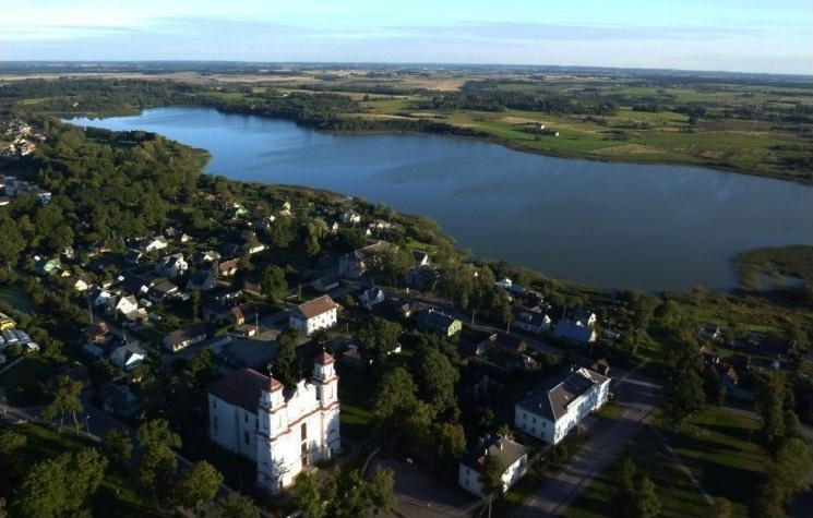 Jiezno ežeras